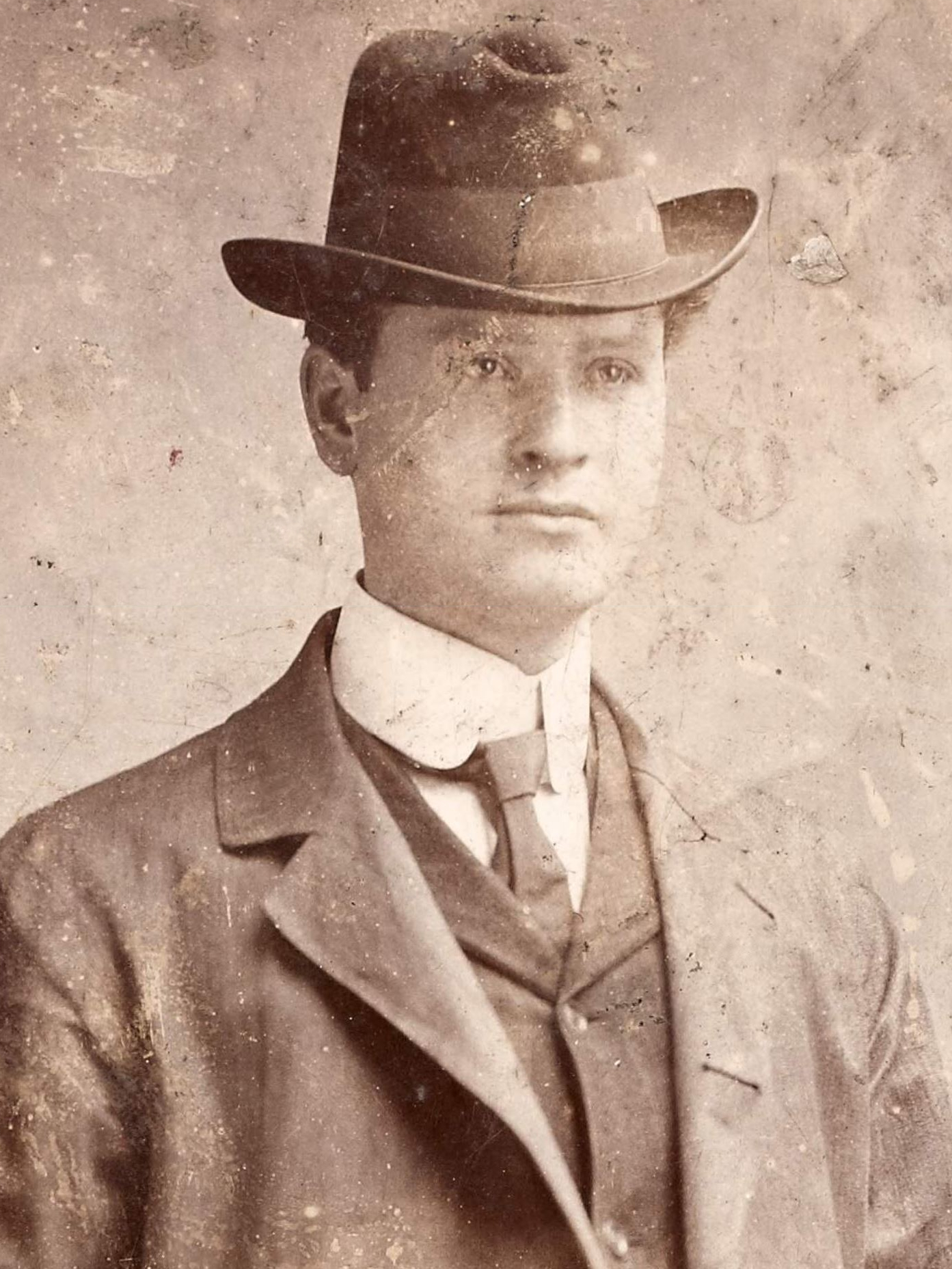 Con Lehane, Irish Socialist, circa 1905.